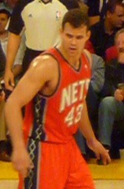 Kris Humphries with the New Jersey Nets